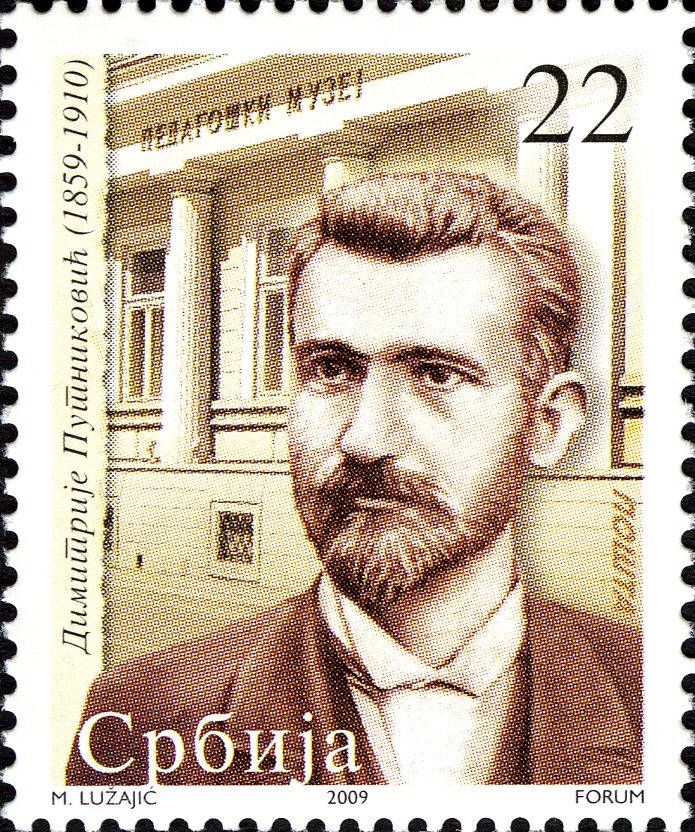 Science - 150th Anniversary of Birth of Dimitrije Putnikovic